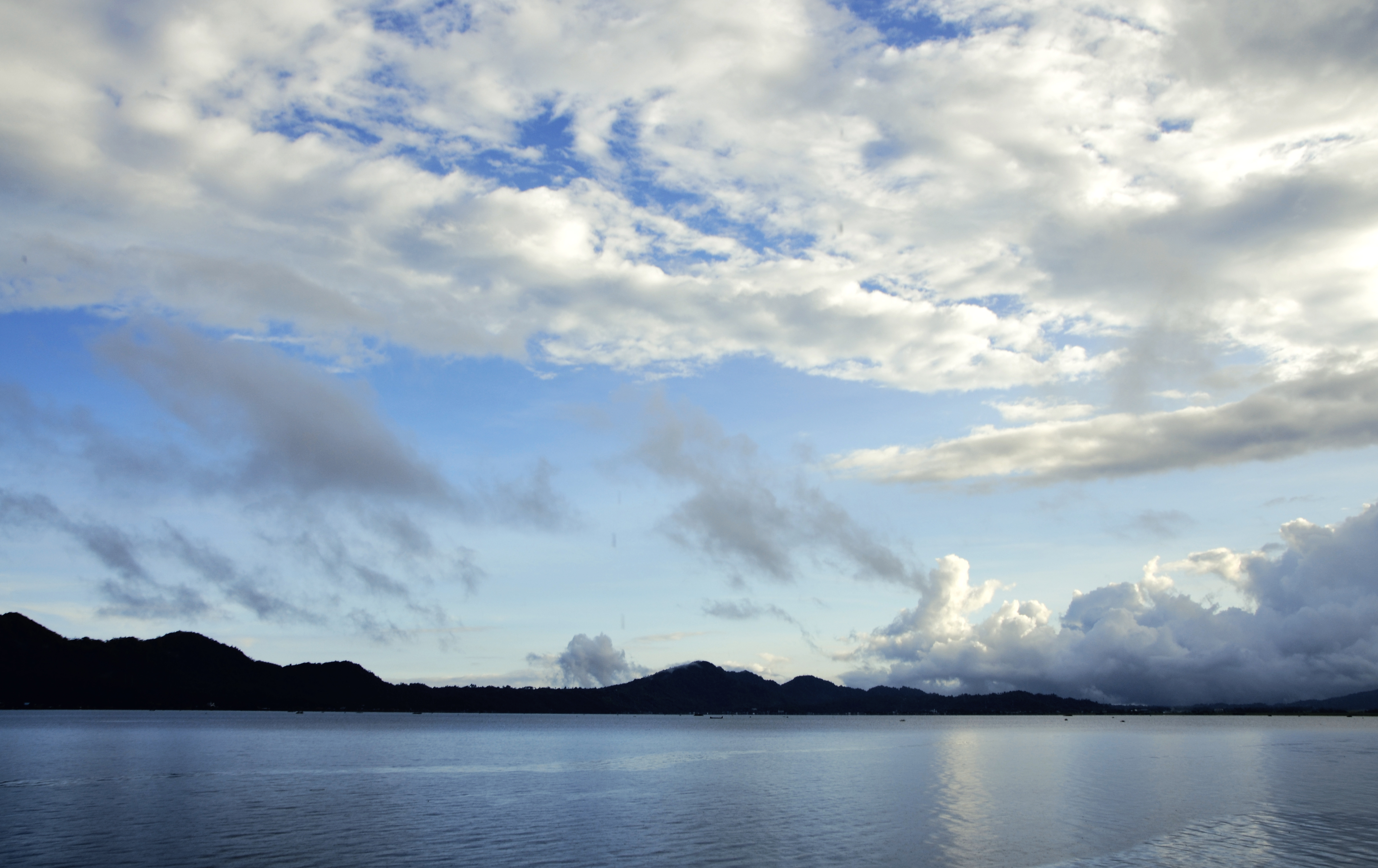 The view of North Sulawesi's largest lake.